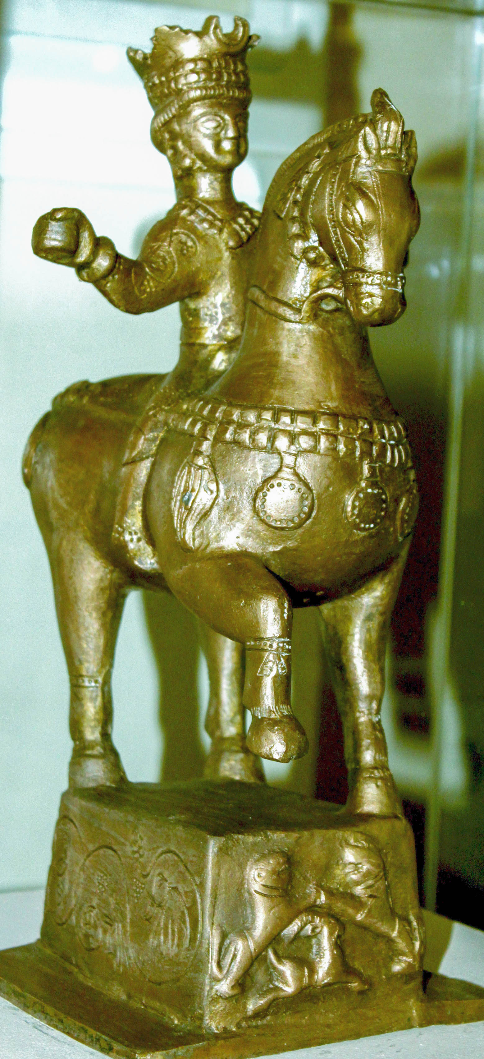 Statue of Caucasian Albanian king Javanshir, in Azerbaijan History Museum (original in Hermitage), found from Nakhichevan, VII century.